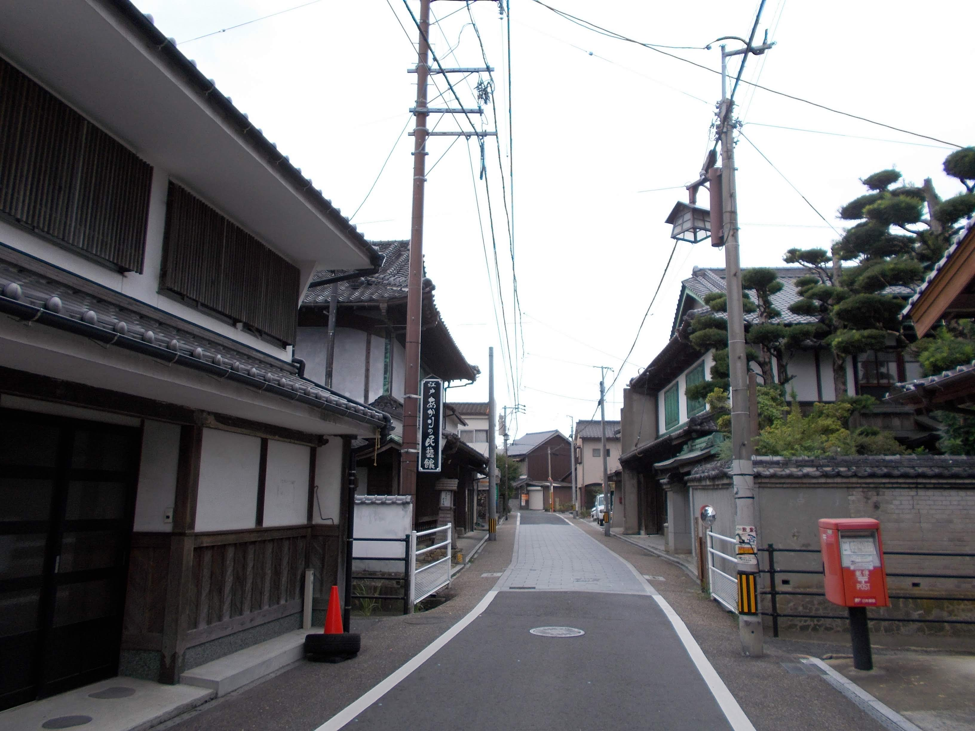 The site of Koyanose-juku East Gate on the Nagasaki Kaido, Yahatanishi-ku, Kitakyushu, Japan